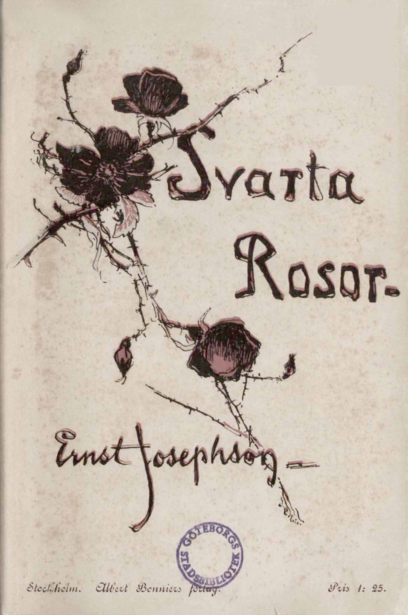 Josephson, Ernst: Svarta rosor. Book cover